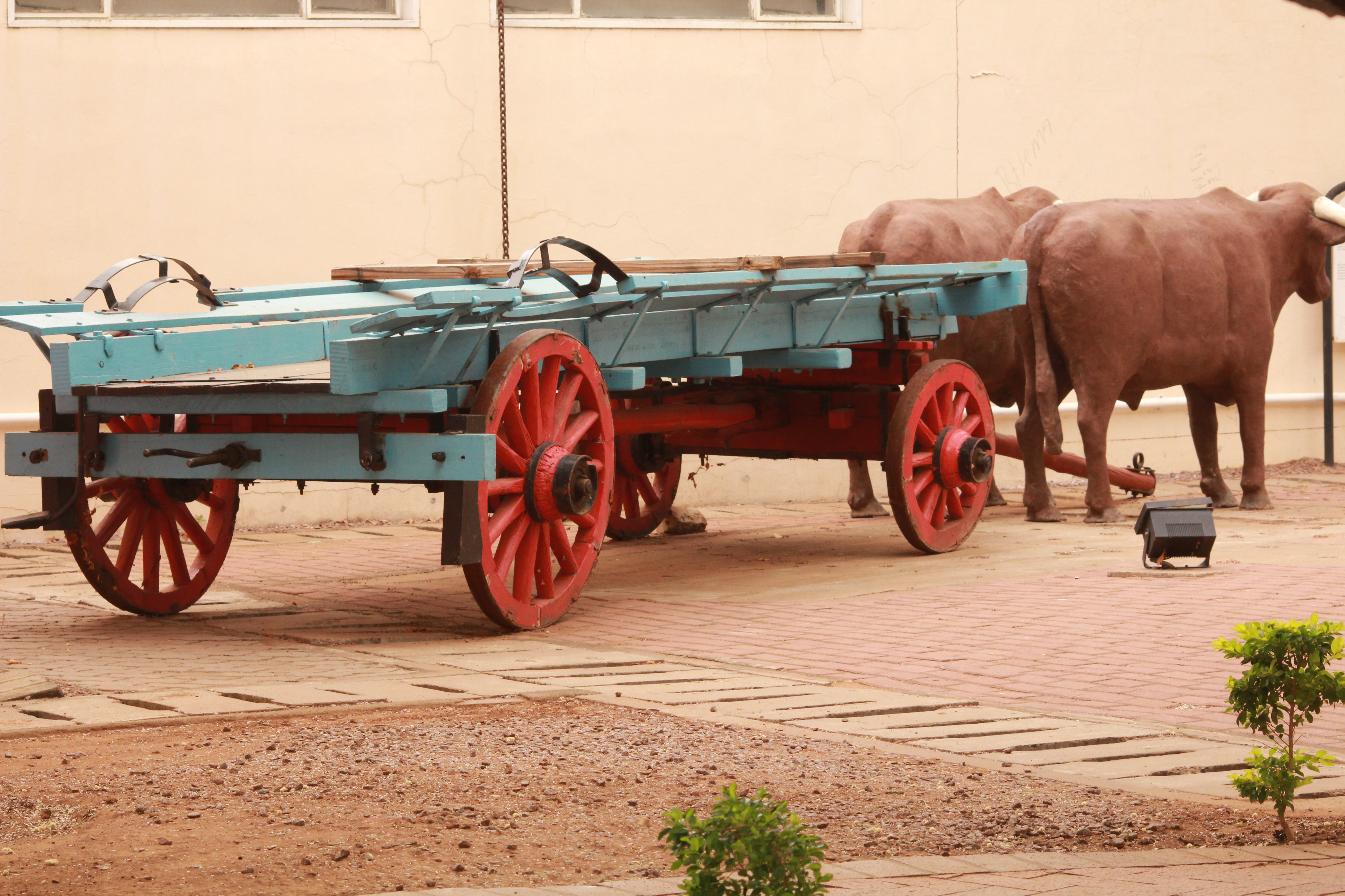 OxCart on display at Botswana National Museum. This is an image with the theme "Africa on the Move or Transport" from: Botswana